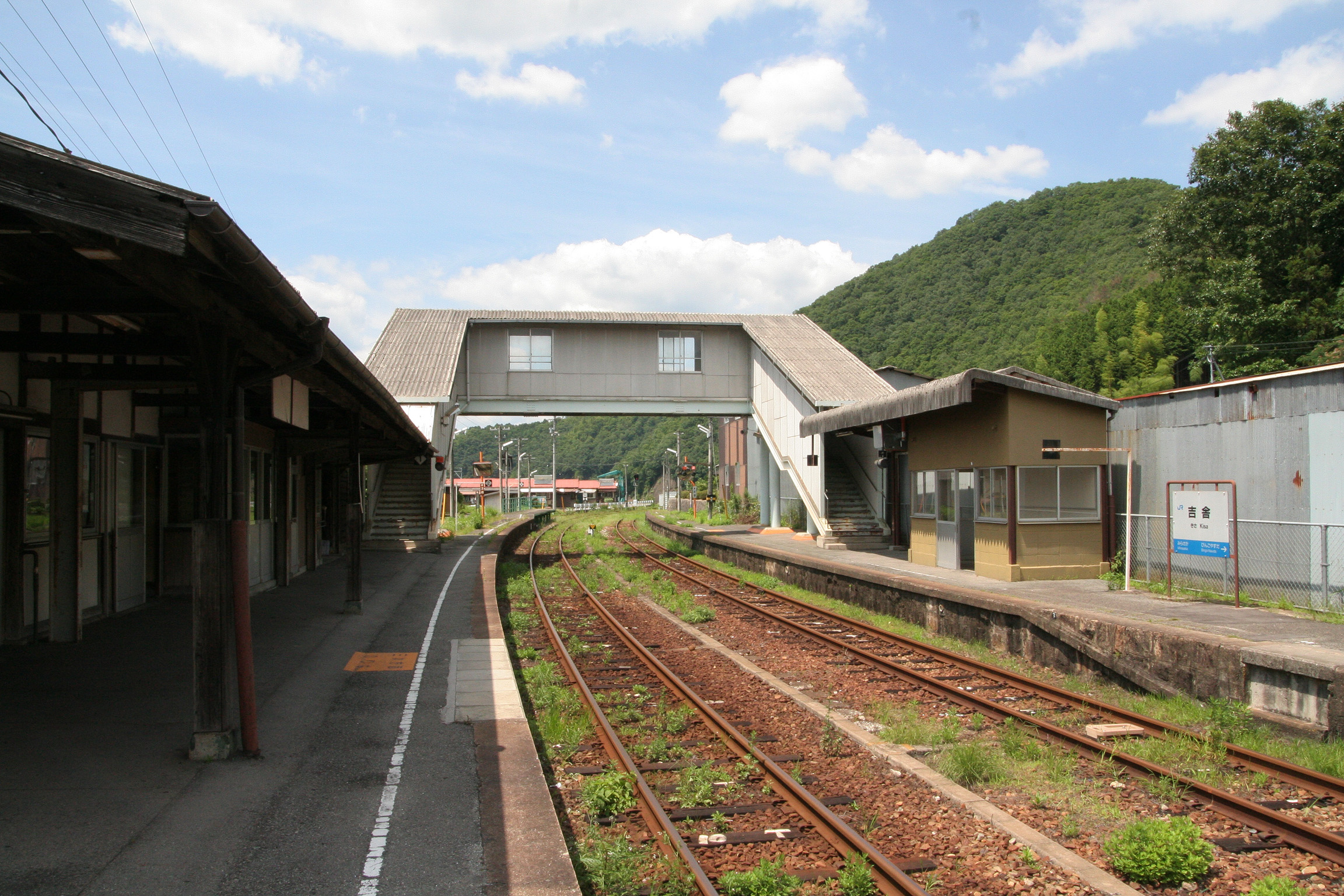 West Japan Railway Fukuen Line Kisa Station enclosure